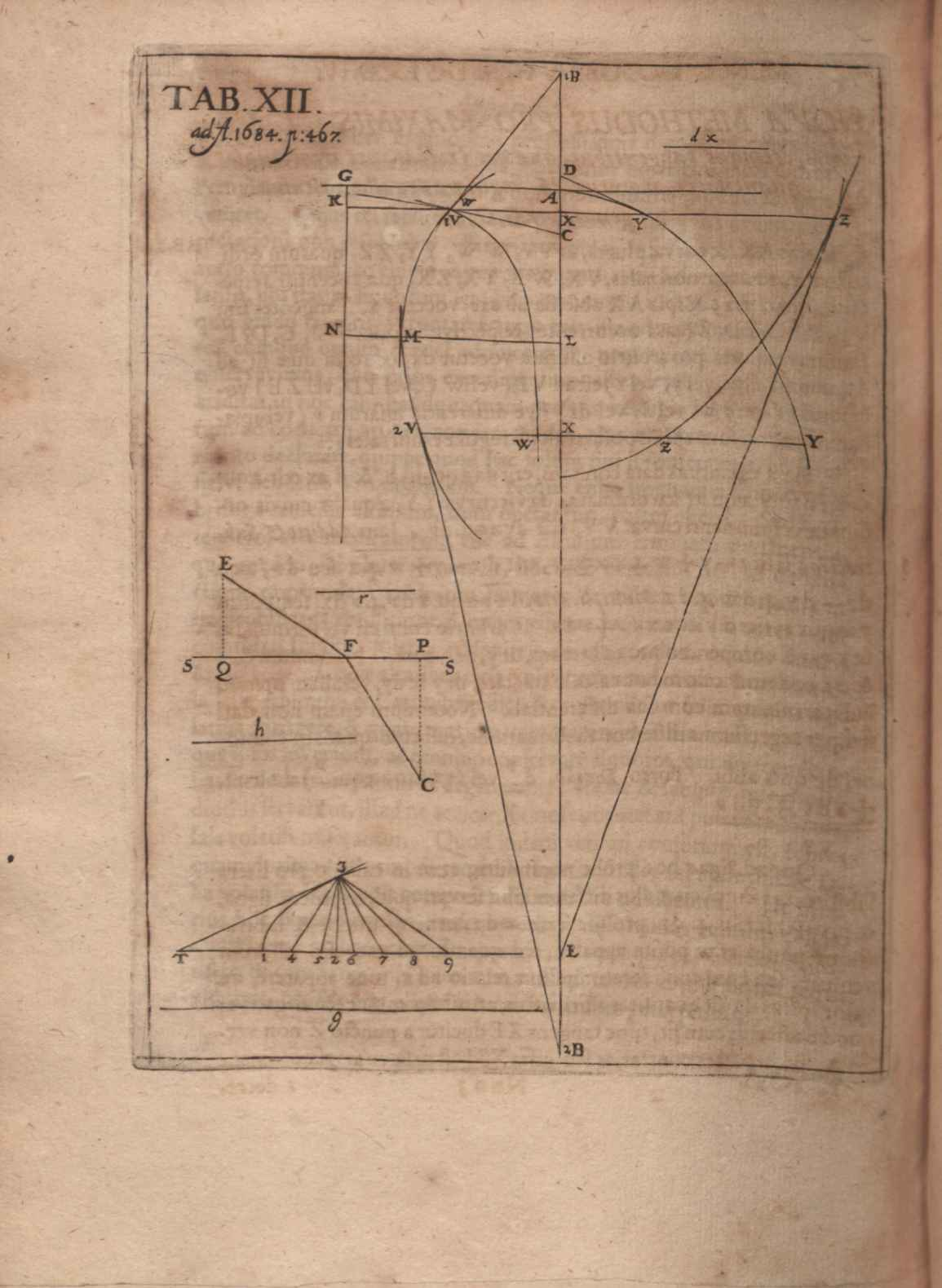 Graphs for Leibniz, Gottfried Wilhelm von: Nova methodus pro maximis et minimis, Acta Eruditorum, 1684 October, p. 466